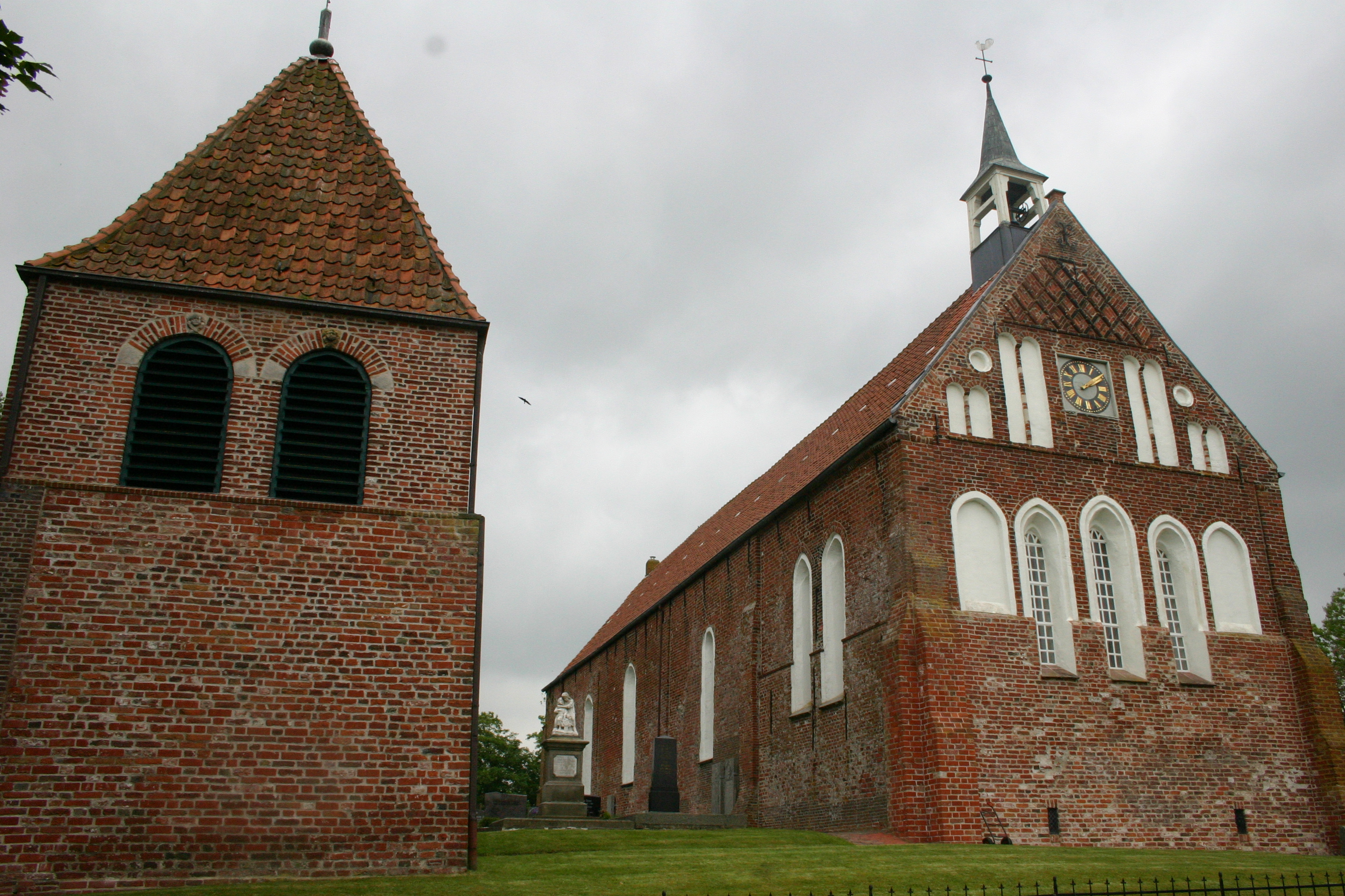 Historic church in Grimersum, district of Aurich, East Frisia, Germany